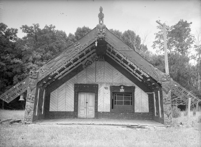 Te Mana-o-Turanga, the last work of a famous carver Raharuhi Rukupo